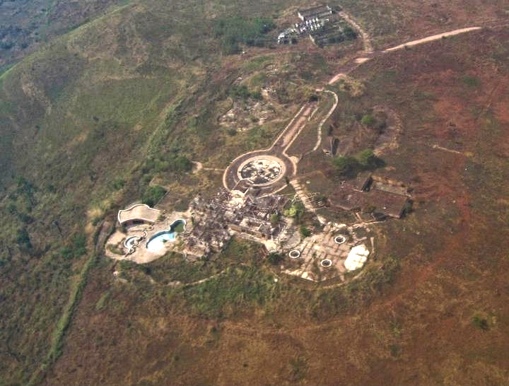 Site of the former Mobutu palace in Gbado-Lite, Equateur, DR Congo